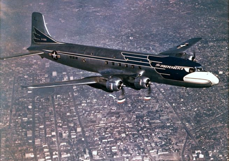 U.S. President Harry S. Truman's Douglas VC-118 Independence in flight, circa 1947.